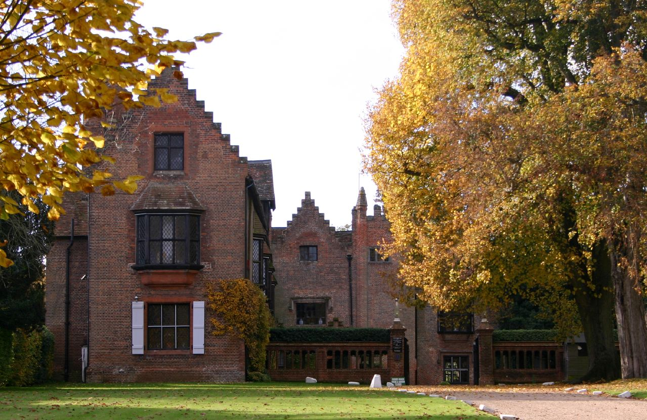 Chenies Manor House, Buckinghamshire, England